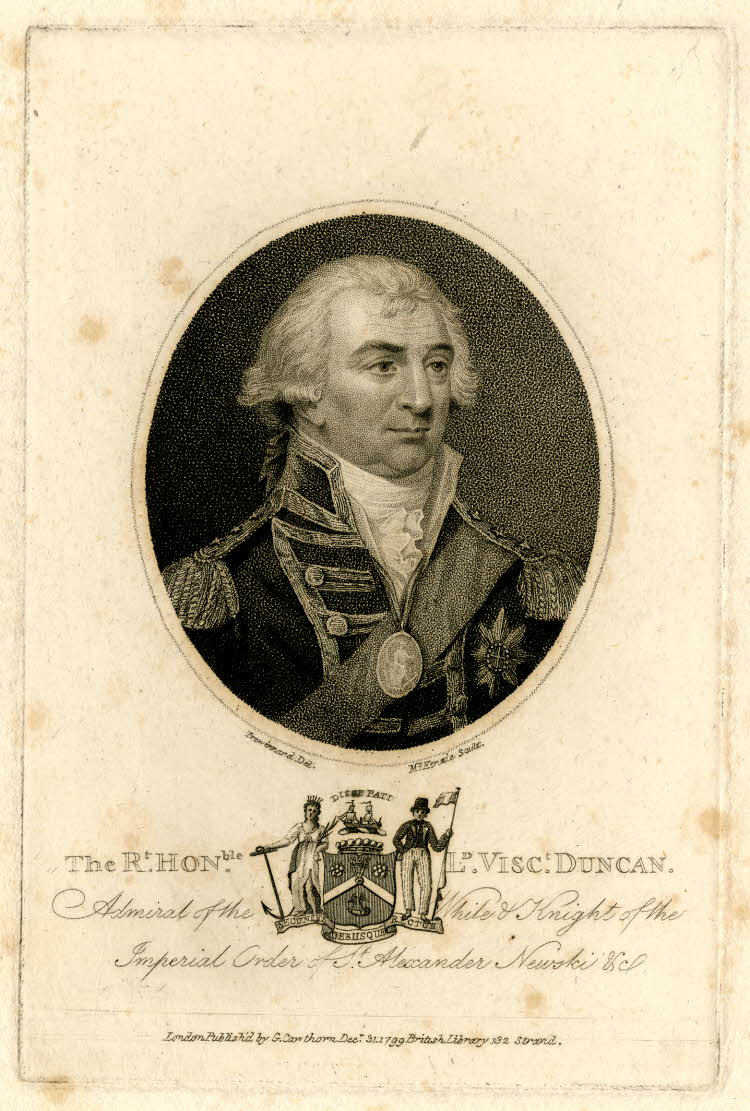 British Museum number 1865,0114.301. Portrait of Adam Duncan, 1st Viscount Duncan, half-length, directed slightly and looking to right, wearing sash over naval uniform with epaulettes and star, medal suspended from a ribbon around his neck, white neckerchief and frill; in an oval; coat of arms below: Gules, two cinquefoils in chief and a hunting-horn in base Argent, stringed Azure, in the centre pendant by a ribbon Argent and Azure from a naval crown Or a gold medal, thereon two figures, the emblems of Victory and Britannia, with a wreath of laurel, below the medal the word “Camperdown” ( after Orme. 1799. Inscription Content Lettered below image with title, continuing with information about the sitter over two lines, on arms with motto, production and publication details: 'Trewinnard Del. / Mc. Kenzie Sculp. / London, Publish'd by G. Cawthorn Decr. 31. 1799 British Library 132 Strand.'